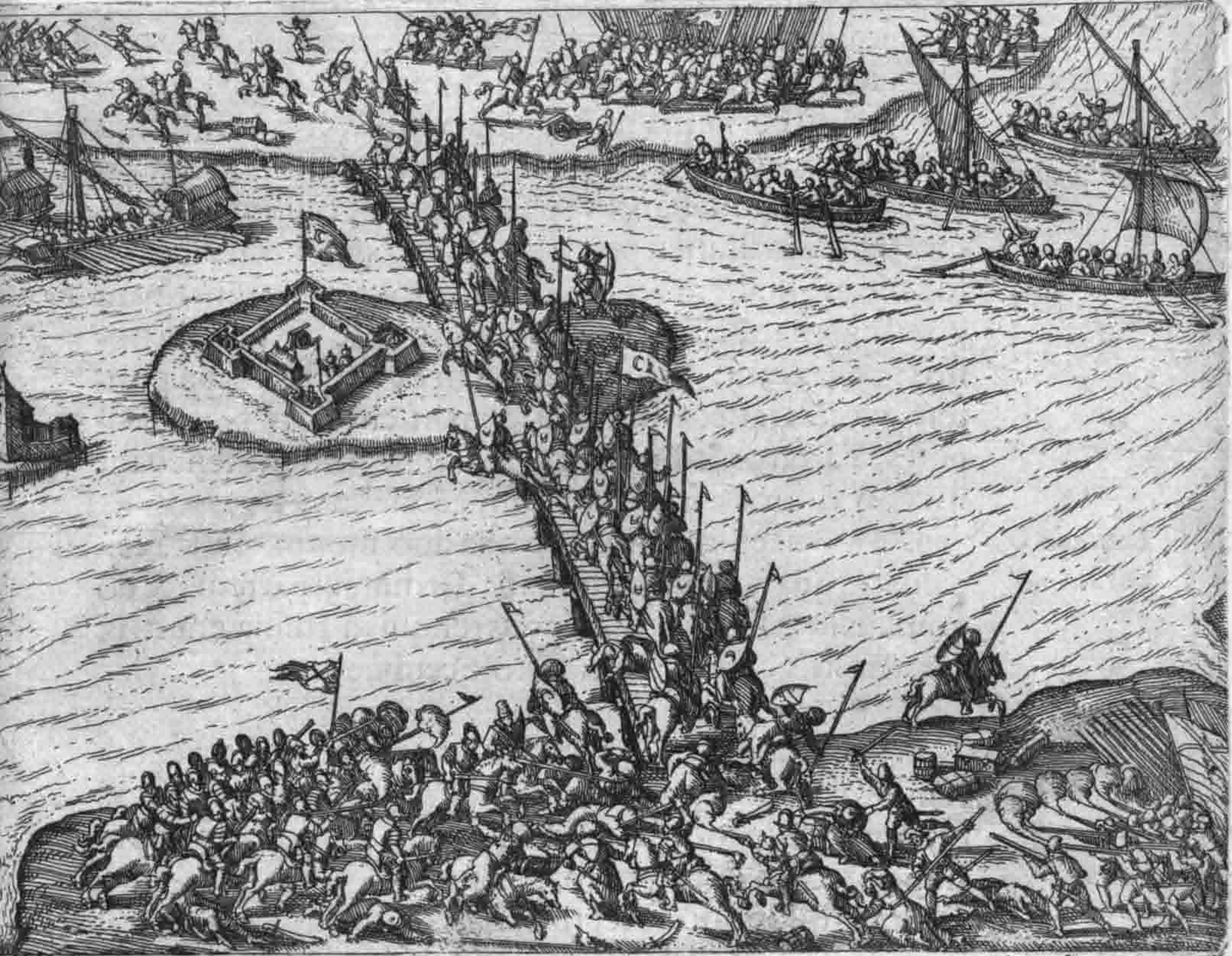 Sigismund Báthory defeating the Turks at Giurgiu, October 1595. Sinan Pasha slips from the bridge. Published in Pannoniae historiae hronologica, 1596